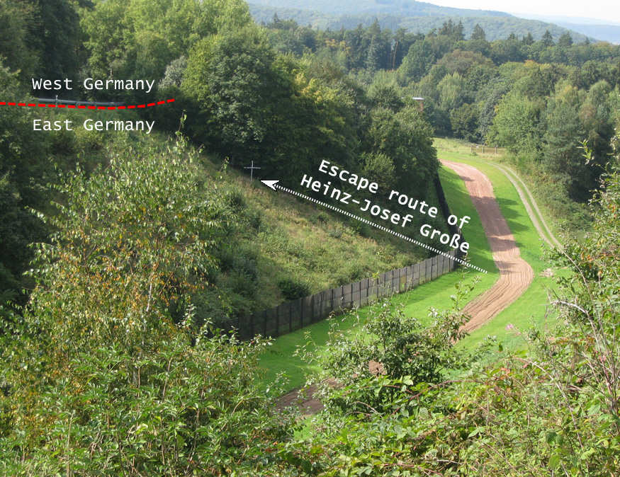 Annotated illustration of the escape route of Heinz-Josef Große, killed on the inner German border on 29 March 1982.